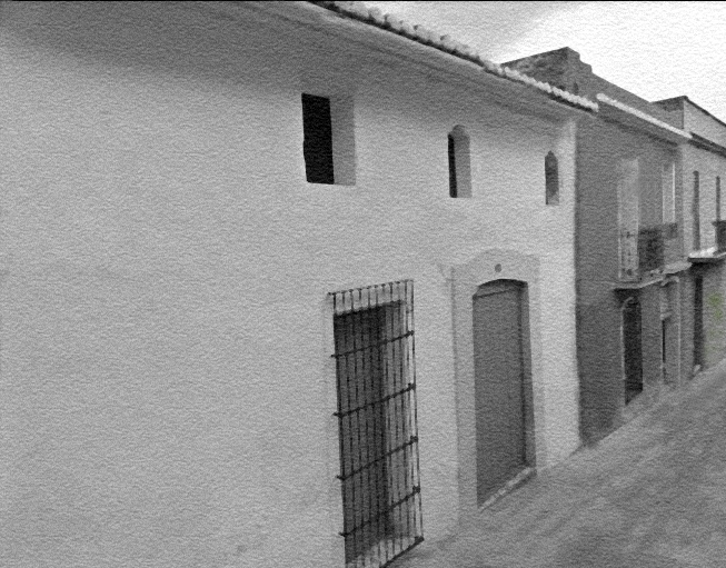 House of José Perelló Torrens in Tormos (Mayor street nº 5)